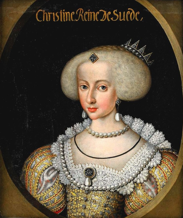 Christina of Sweden as a child